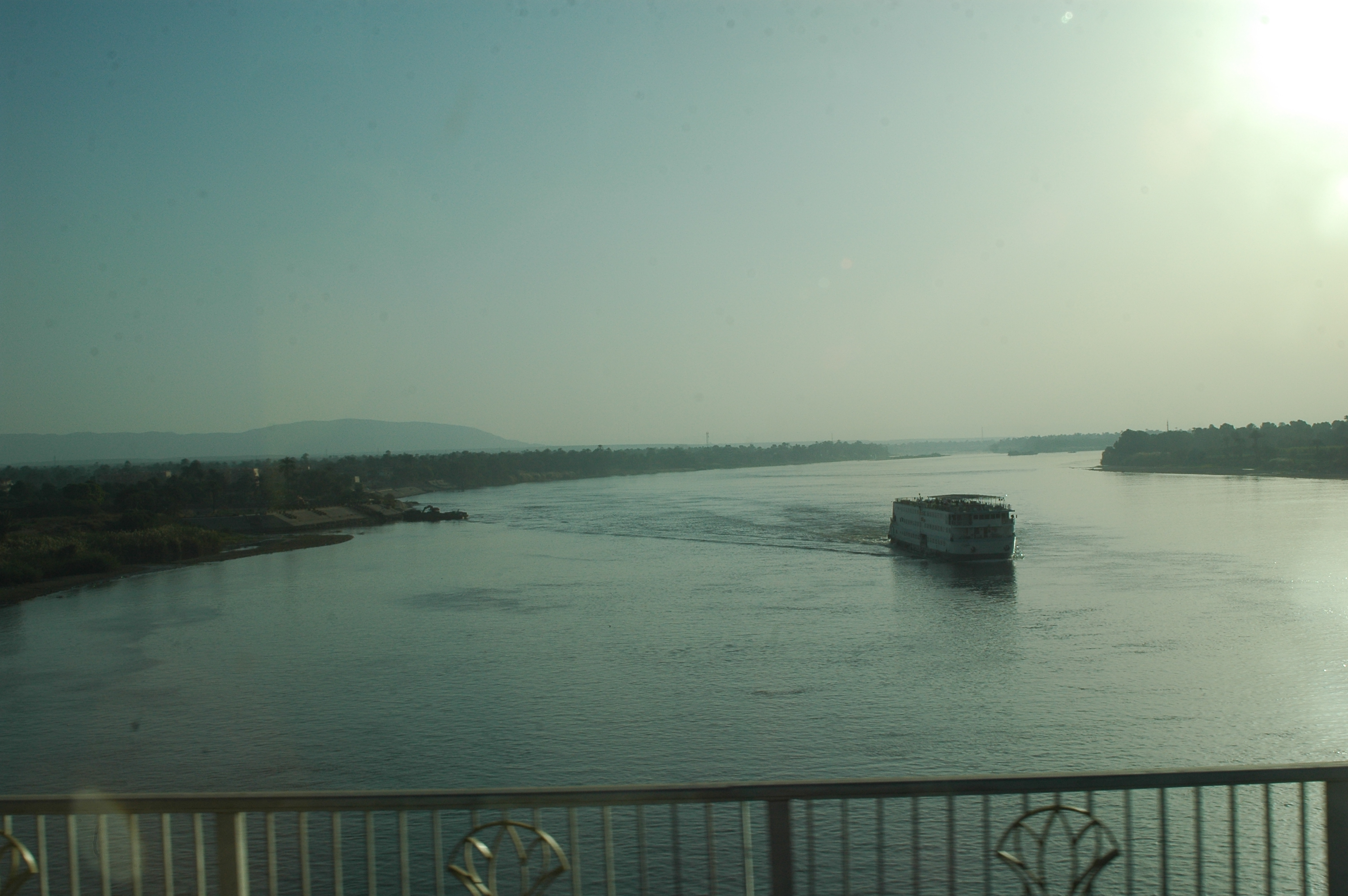 Al Maris, Arment, Qena Governorate, Egypt